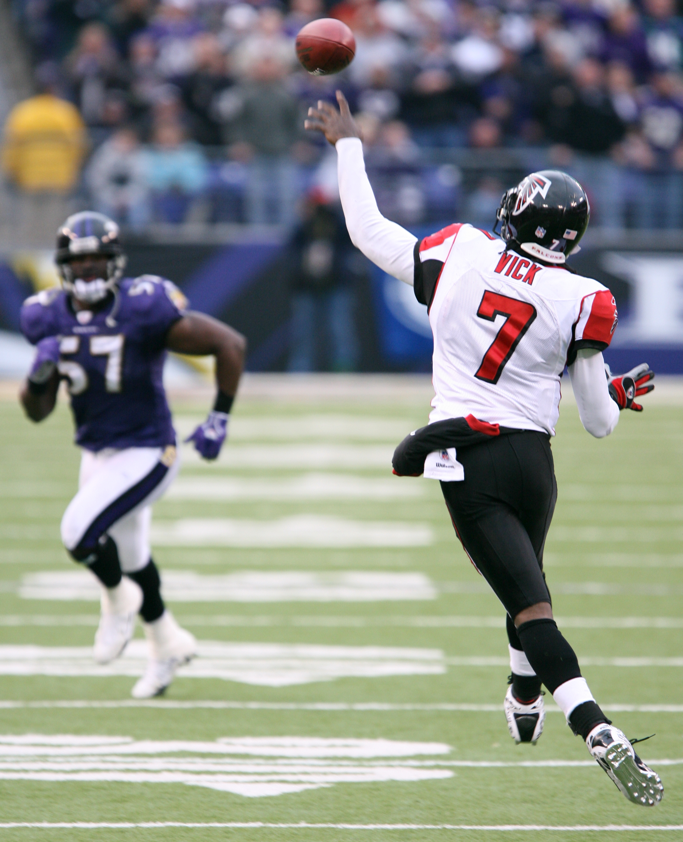 Michael Vick during a game against the Baltimore Ravens, November 19, 2006.